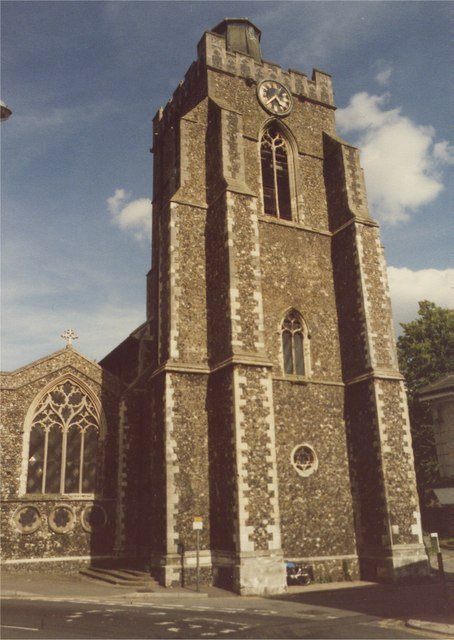 Stowmarket Church My Grandparents lived adjacent to the churchyard of this Church from before I was born till their deaths - this is how I best remember the church... ... "For over twenty years Stowmarket Church was without it's [sic] spire, presenting a rather ugly appearance, The truncated spire was known as "The Stowmarket Stump". The spire was taken down due to its dangerous condition and replaced in the mid 1990's." from My father was a choir boy here in the 1940s